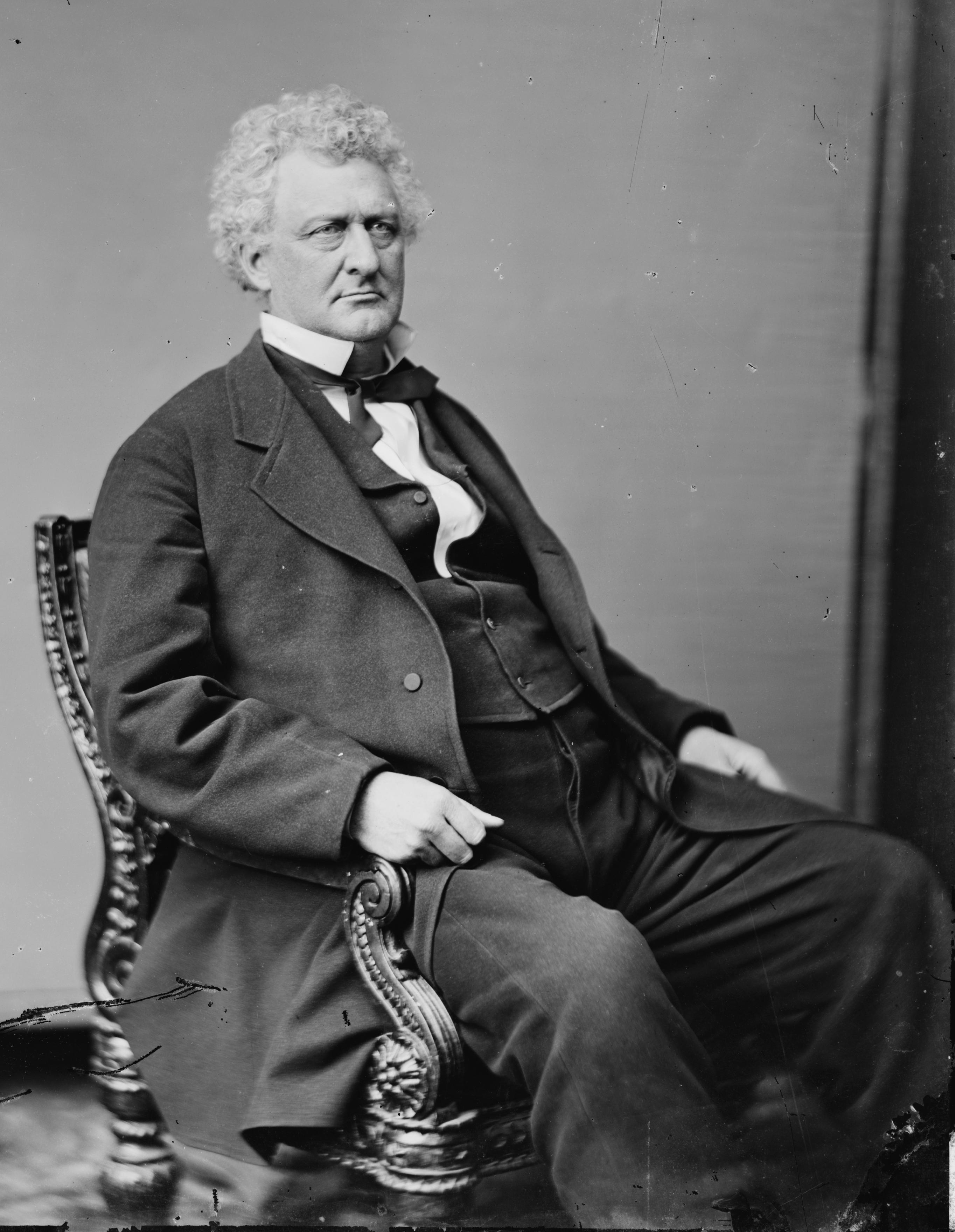 William Allen ( December 18 or December 27, 1803 – July 11, 1879) was a Democratic Representative and Senator from the U.S. state of Ohio, as well as Governor of Ohio.